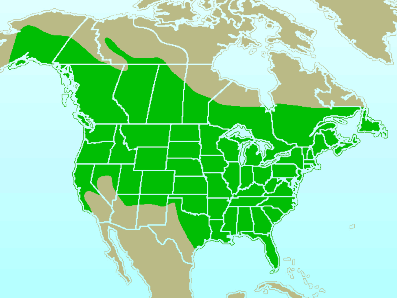 Approximate range/distribution map of the Downy Woodpecker (Picoides pubescens). In keeping with WikiProject: Birds guidelines, yellow indicates the summer-only range, blue indicates the winter-only range, and green indicates the year-round range of the species.